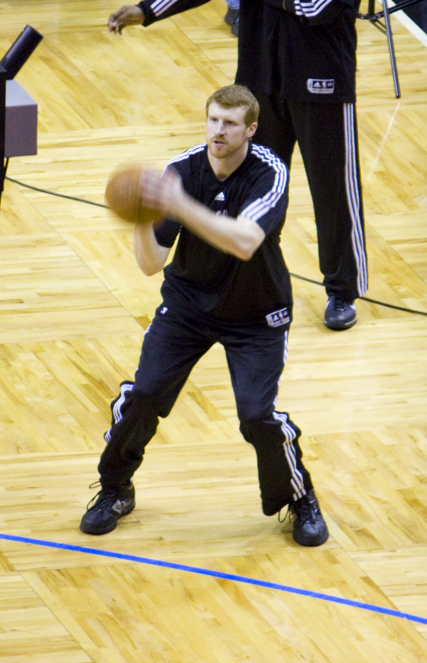 Matt Bonner of the San Antonio Spurs.